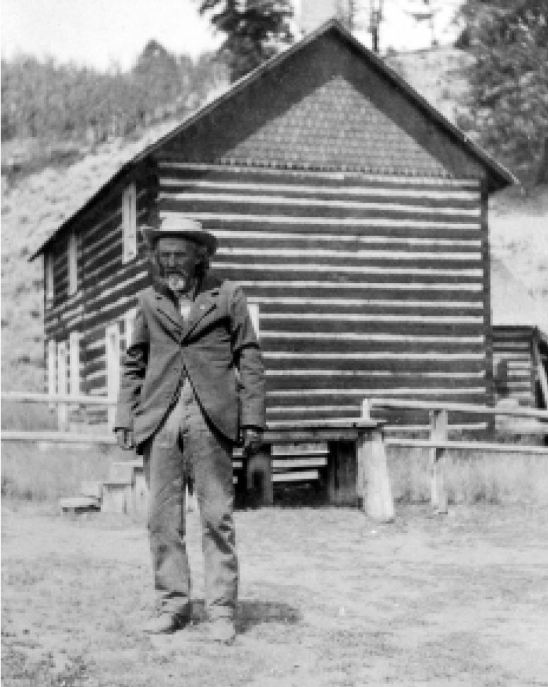 Uncle John F. Yancey, Yancey's Pleasant Valley Hotel, Yellowstone National Park, date unknown (circa 1900)